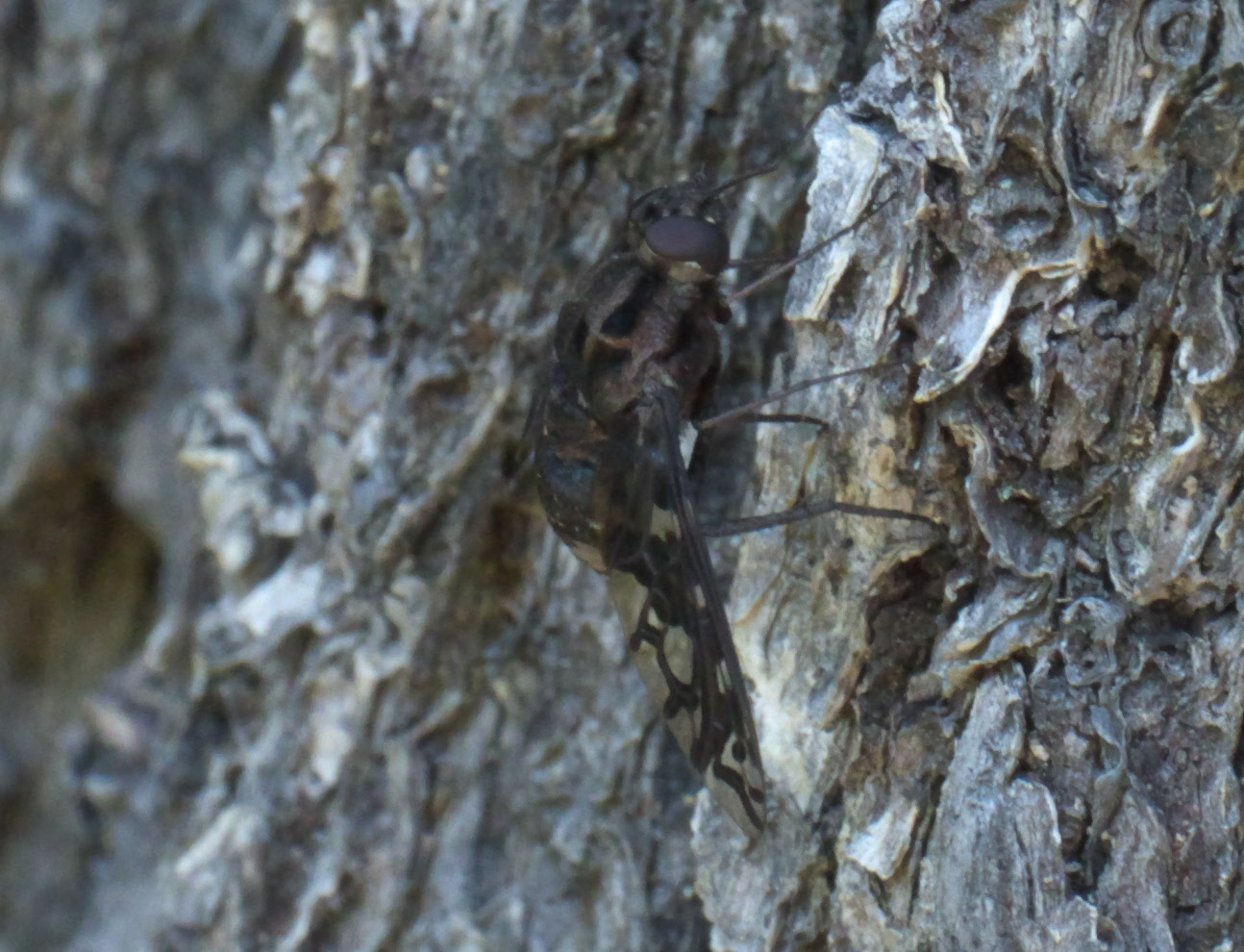 Xenox tigrinus, tiger bee fly, ID Confidence: 87